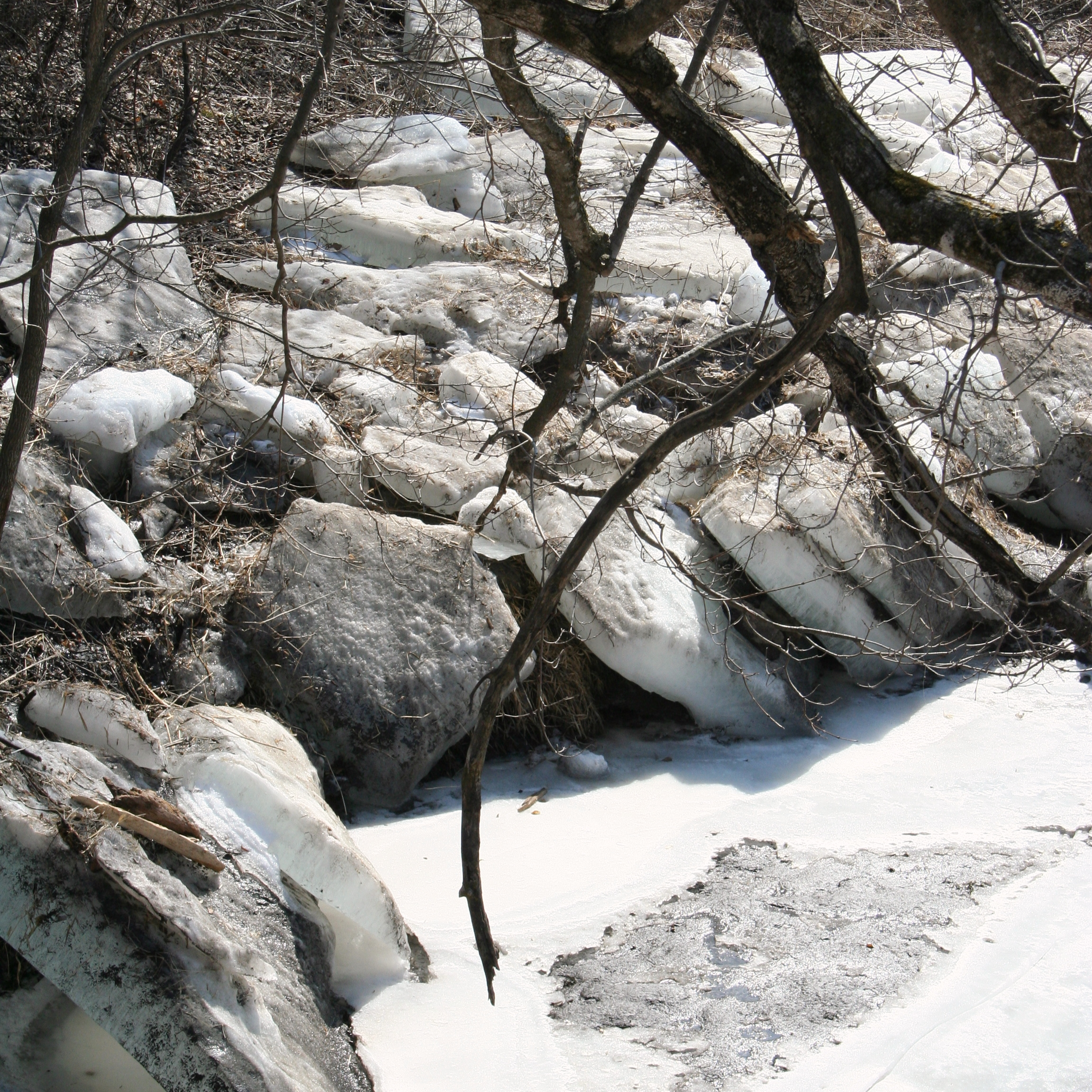 Ice sheets on a bank of the Zumbro River in Oxbow Park, Olmsted County, Minnesota.